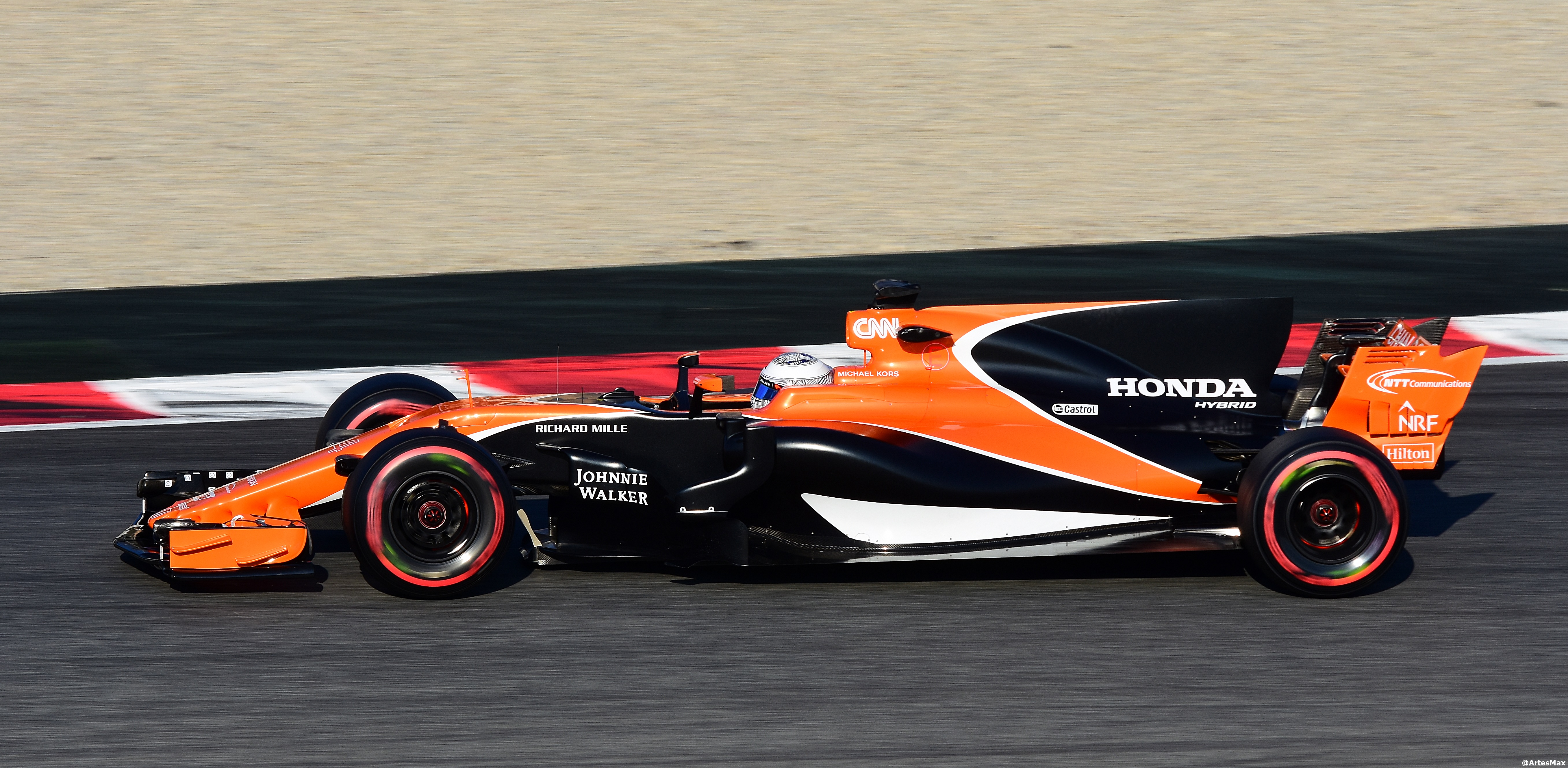 Fernando Alonso testing the McLaren MCL32 at Barcelona